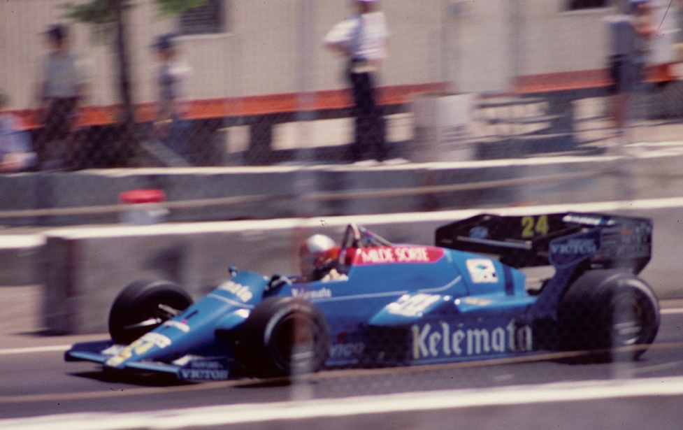 Piercarlo Ghinzani, #24 Osella Alfa-Romeo placed 5th at this race, +2 laps.